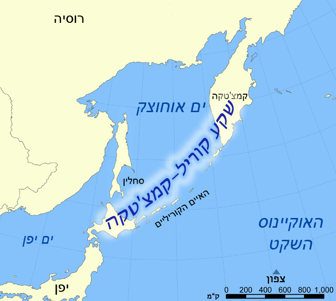 This is a map showing the location of the Sea of Okhotsk. The sea is bordered by Russia and Japan. Created by NormanEinstein, October 24, 2005.